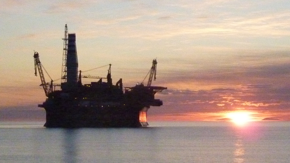 Arrival at the PRIRAZLOMNAYA